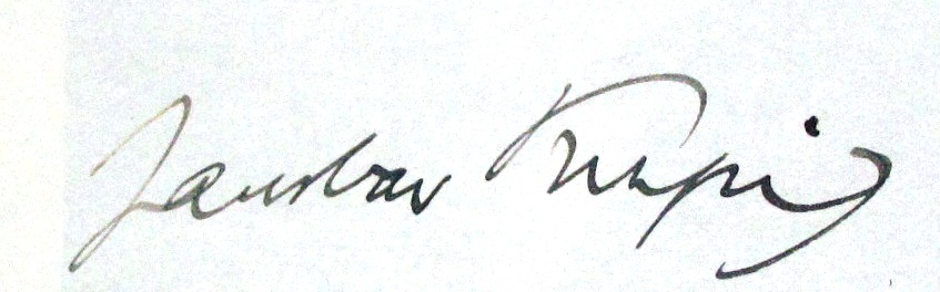 Autograph of Jaroslav Kvapil, Czech Theatre Director (1932)